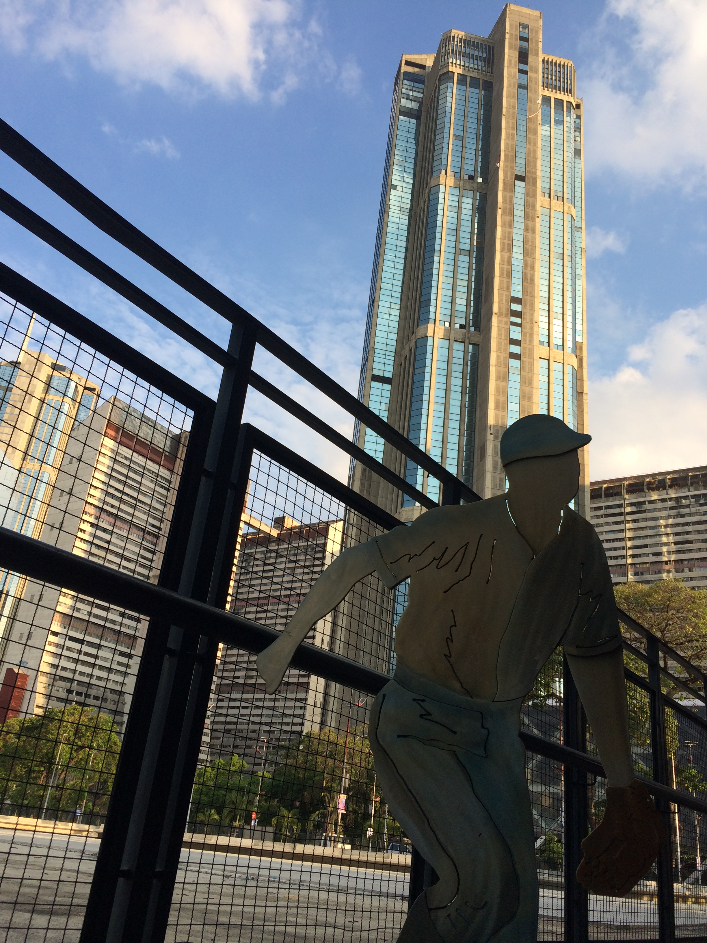 Parque Central y la Galeria de Arte Nacional